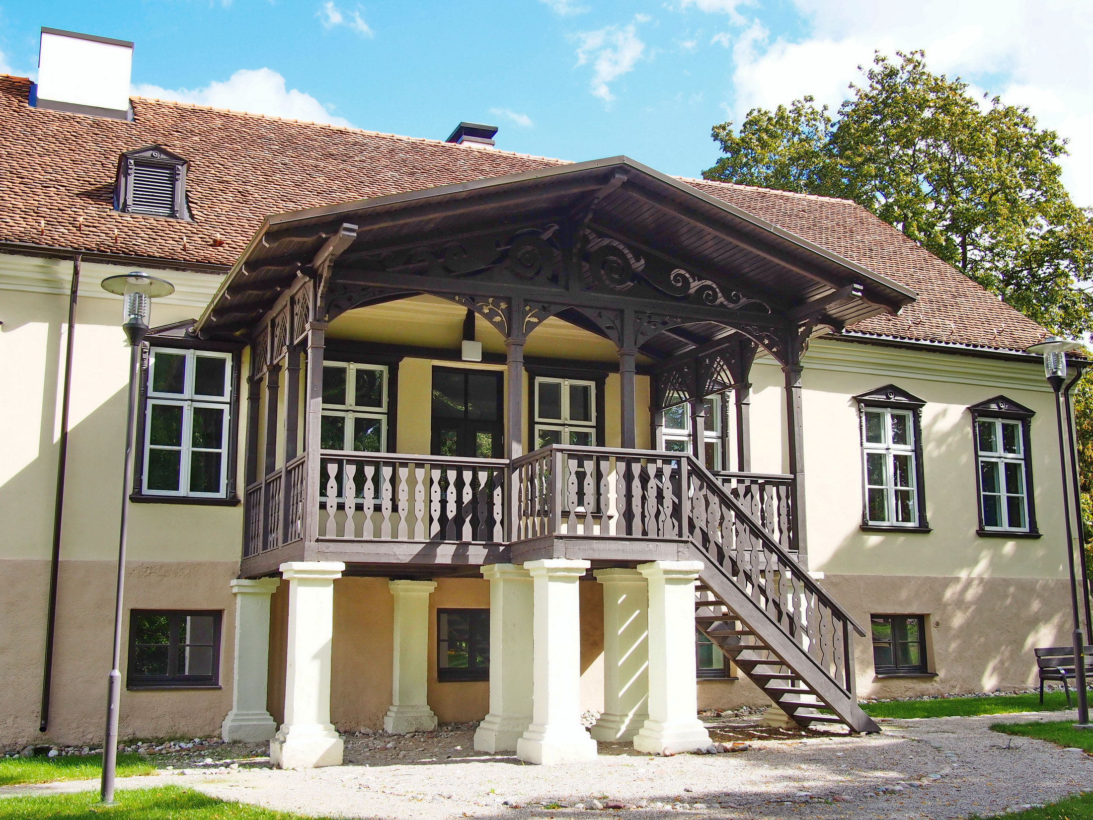 Kiduliai manor